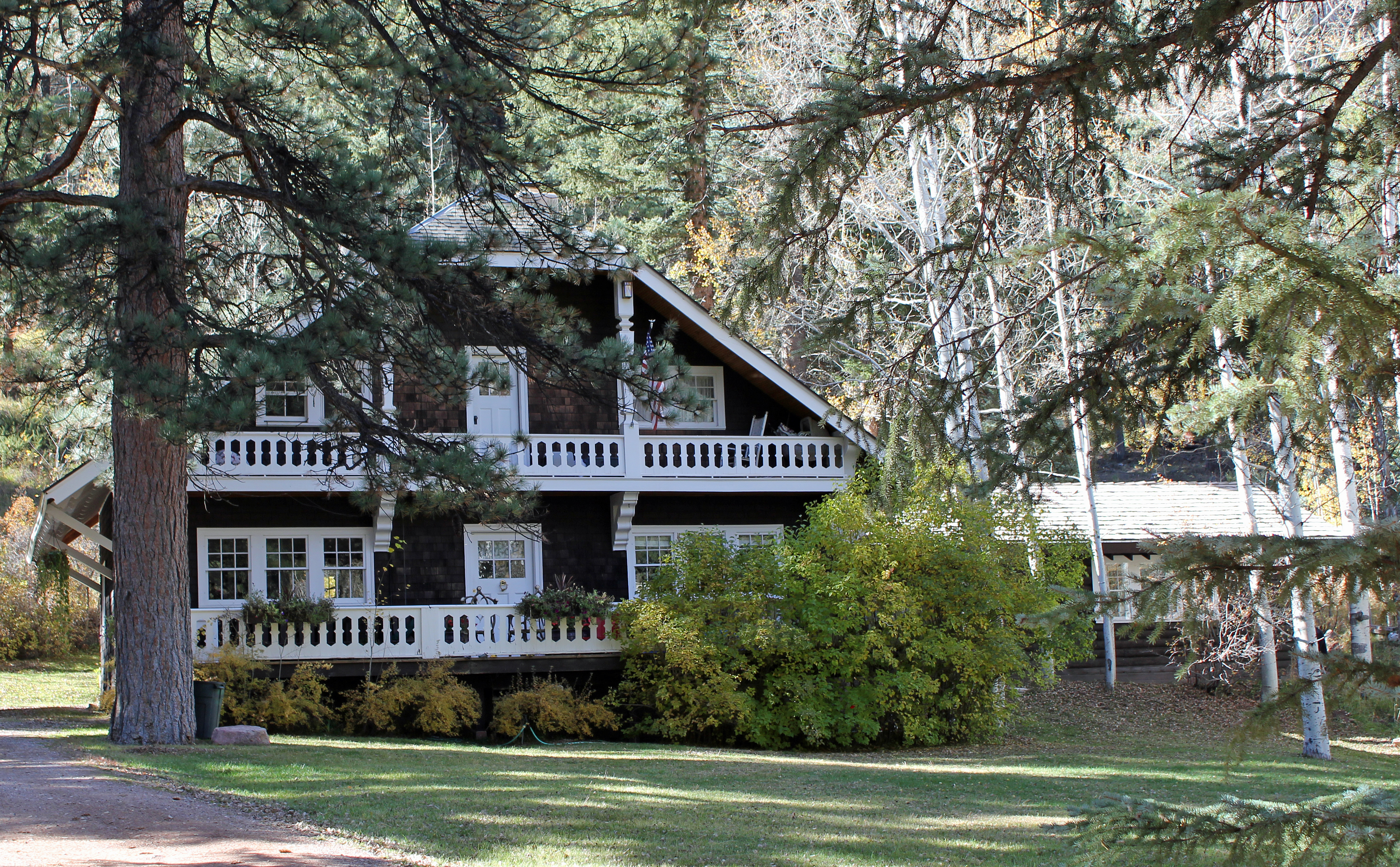 The Osgood Gamekeeper’s Lodge, located at 18679 Colorado Highway 133 in Redstone, Colorado. The property is listed on the National Register of Historic Places.